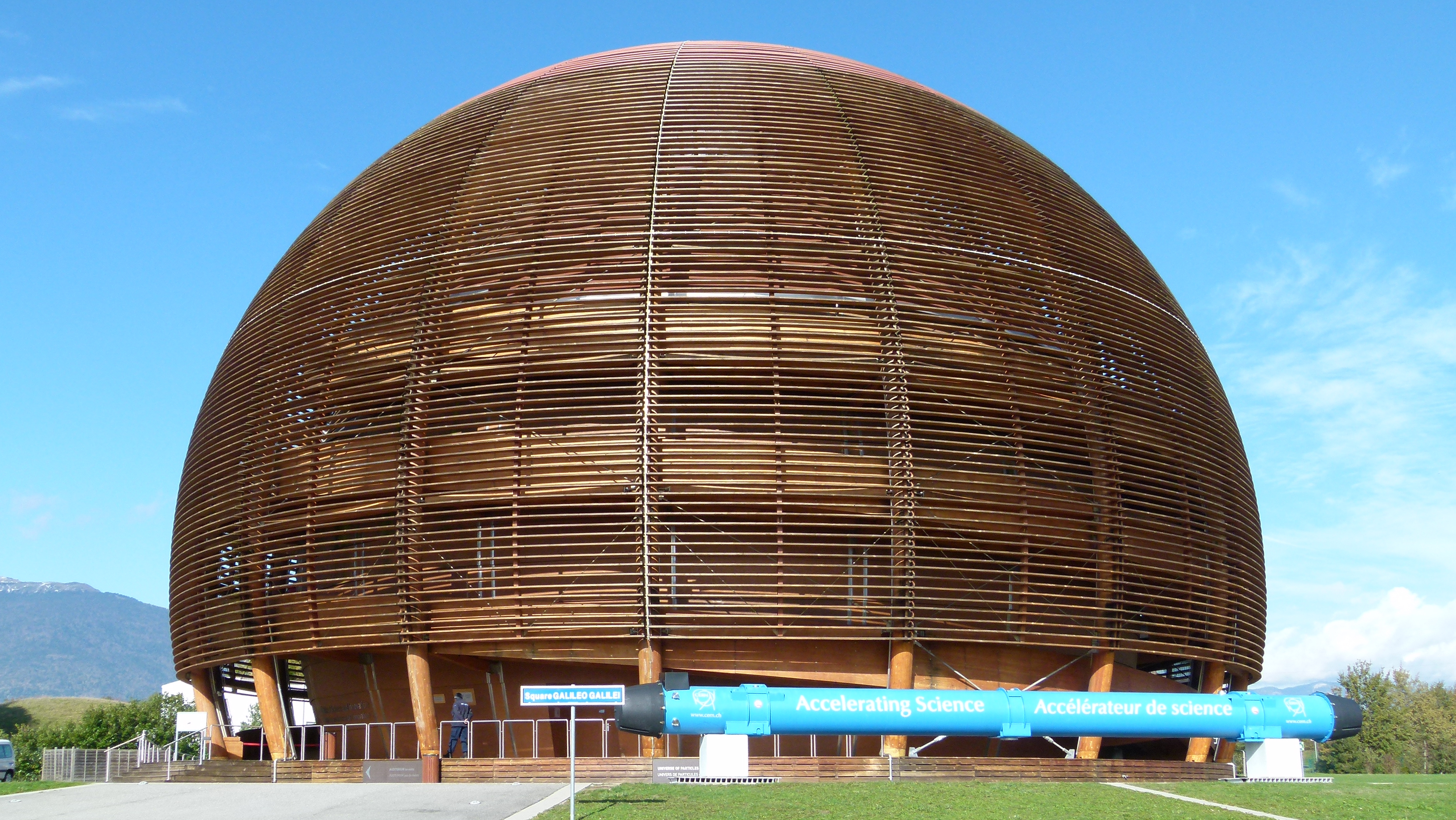 CERN Globe of Science and Innovation